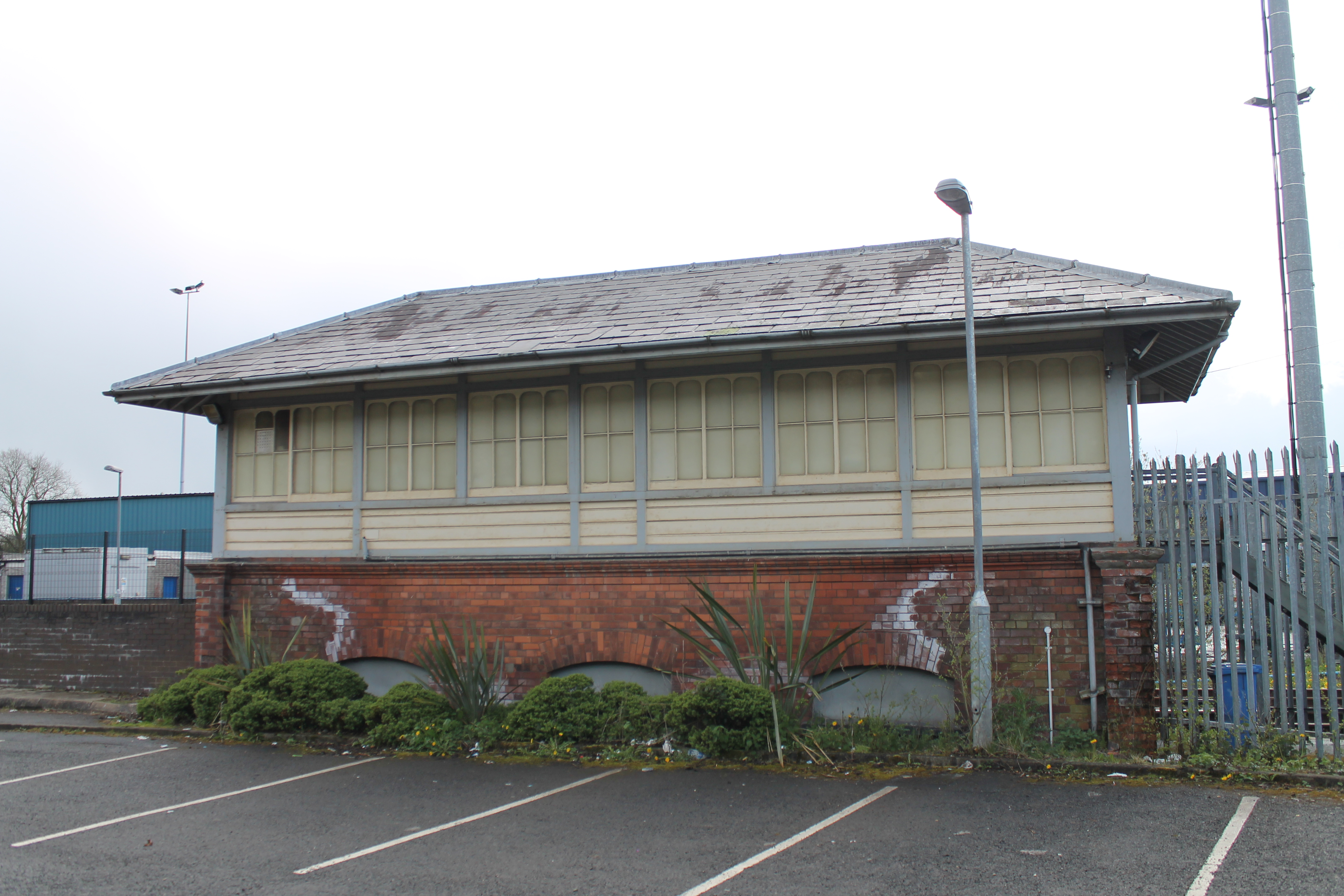 Ballymena signal cabin. Apr 2015.